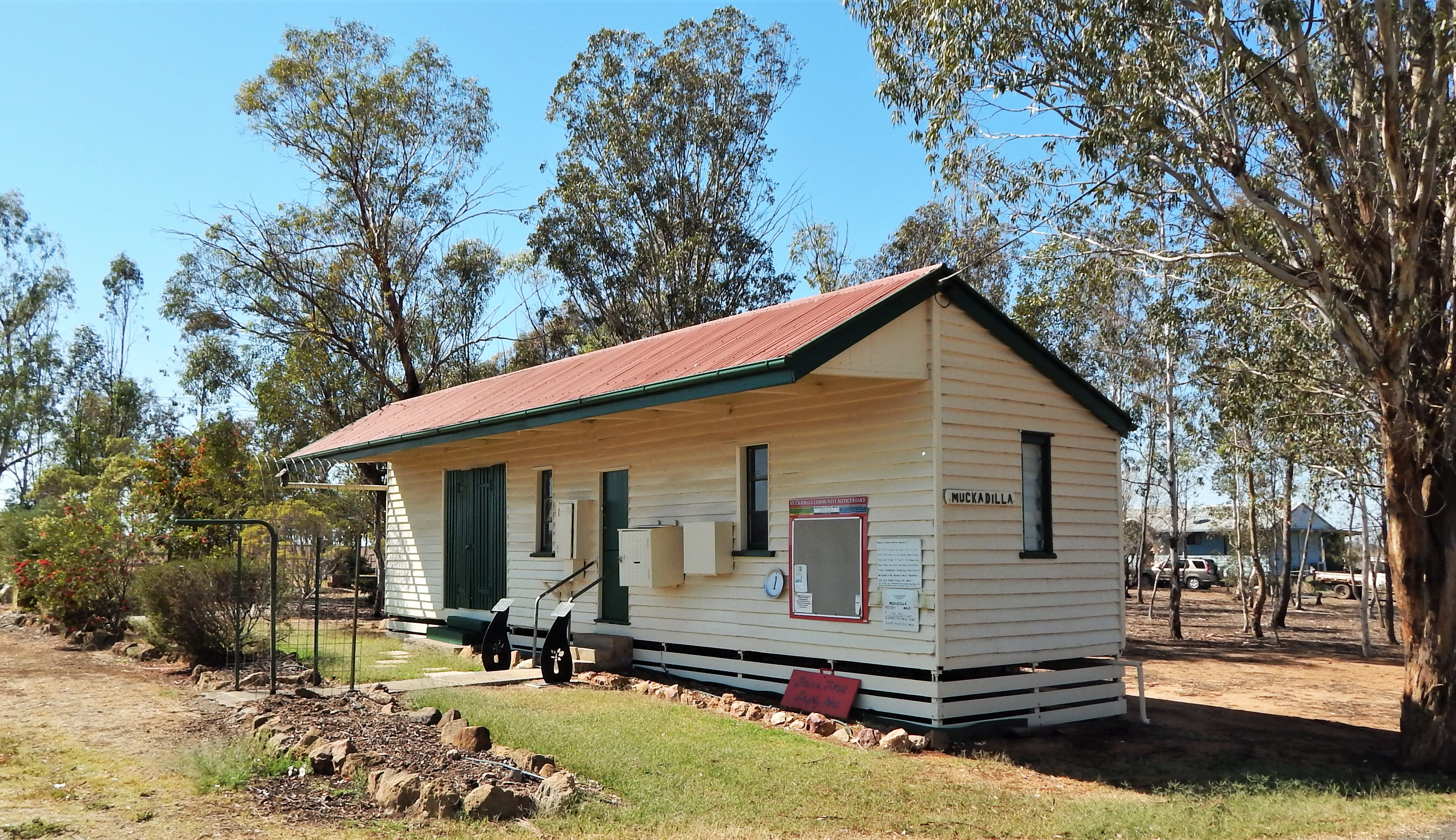 The original Muckadilla Railway Station, which has been repurposed as the Muckadilla Whistle Stop - a de facto museum housing local historical artefacts, while volunteers provide information for tourists